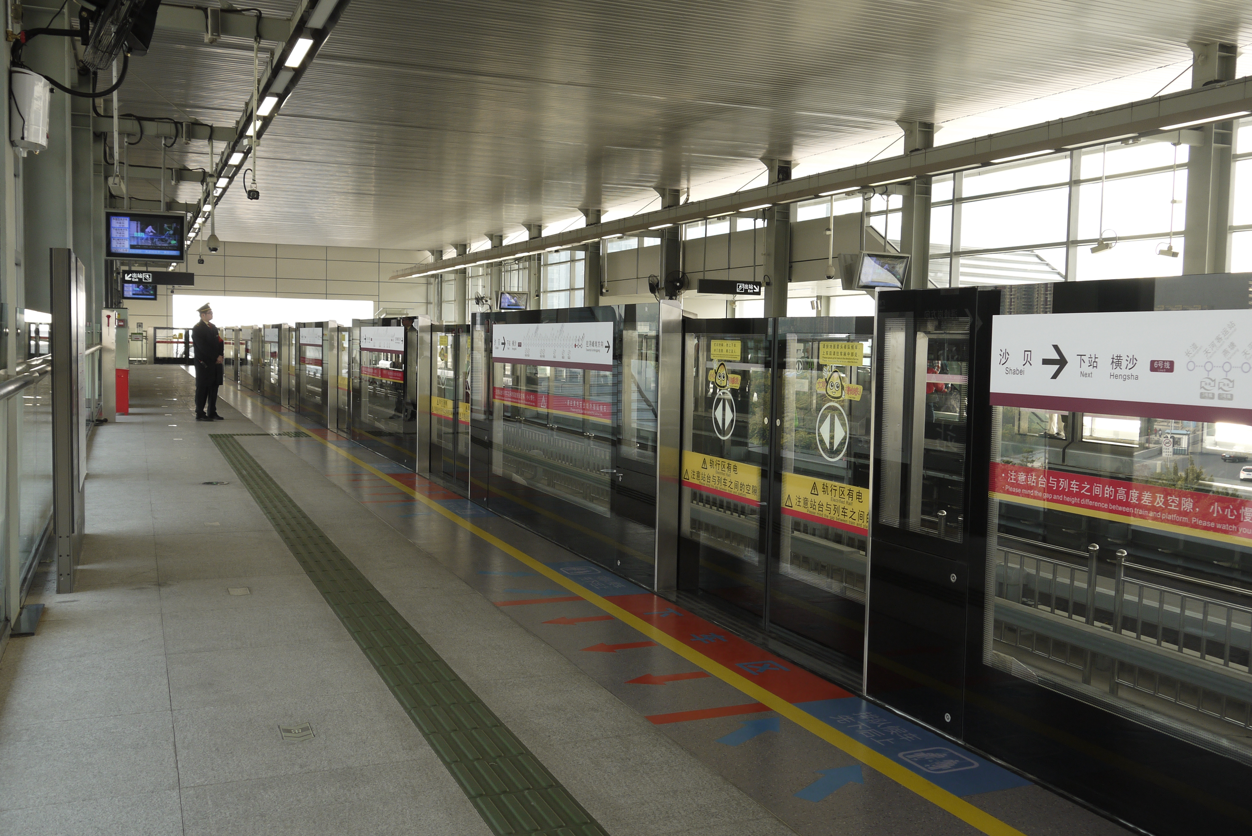 SHA BEI STA.